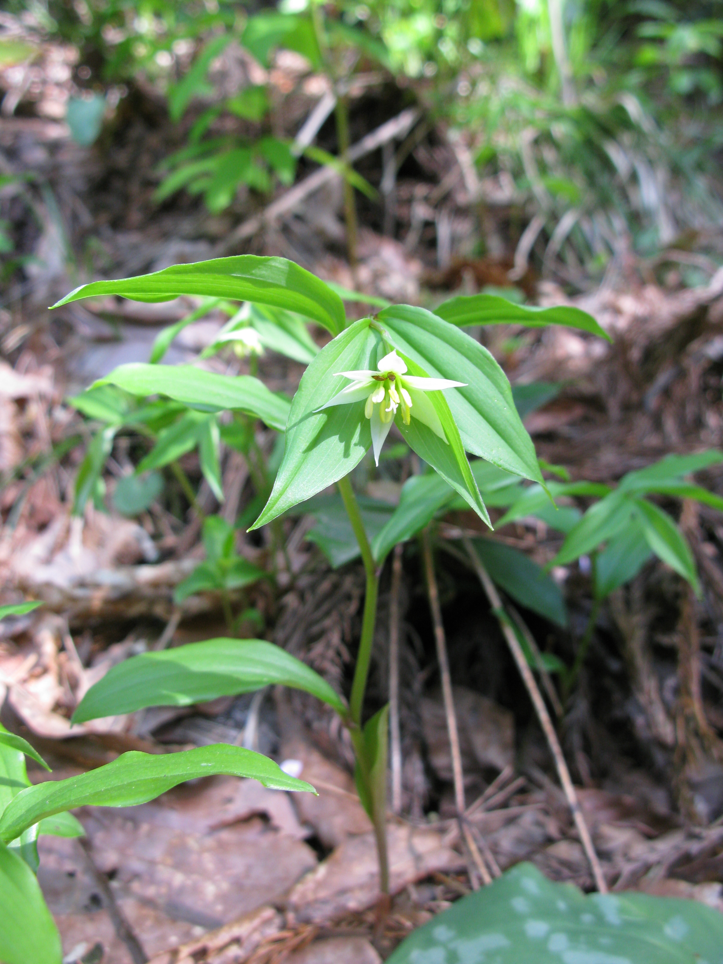 Disporum smilacinum, Aizu area, Fukushima pref., Japan